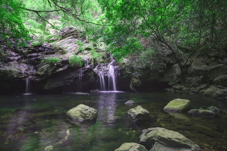 Streams and waterfalls in the Nagalapuram Hills near SriCity